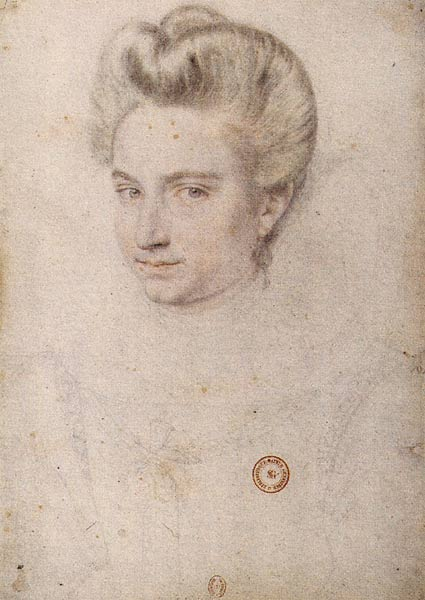 Portrait of Gabrielle d'Estrées